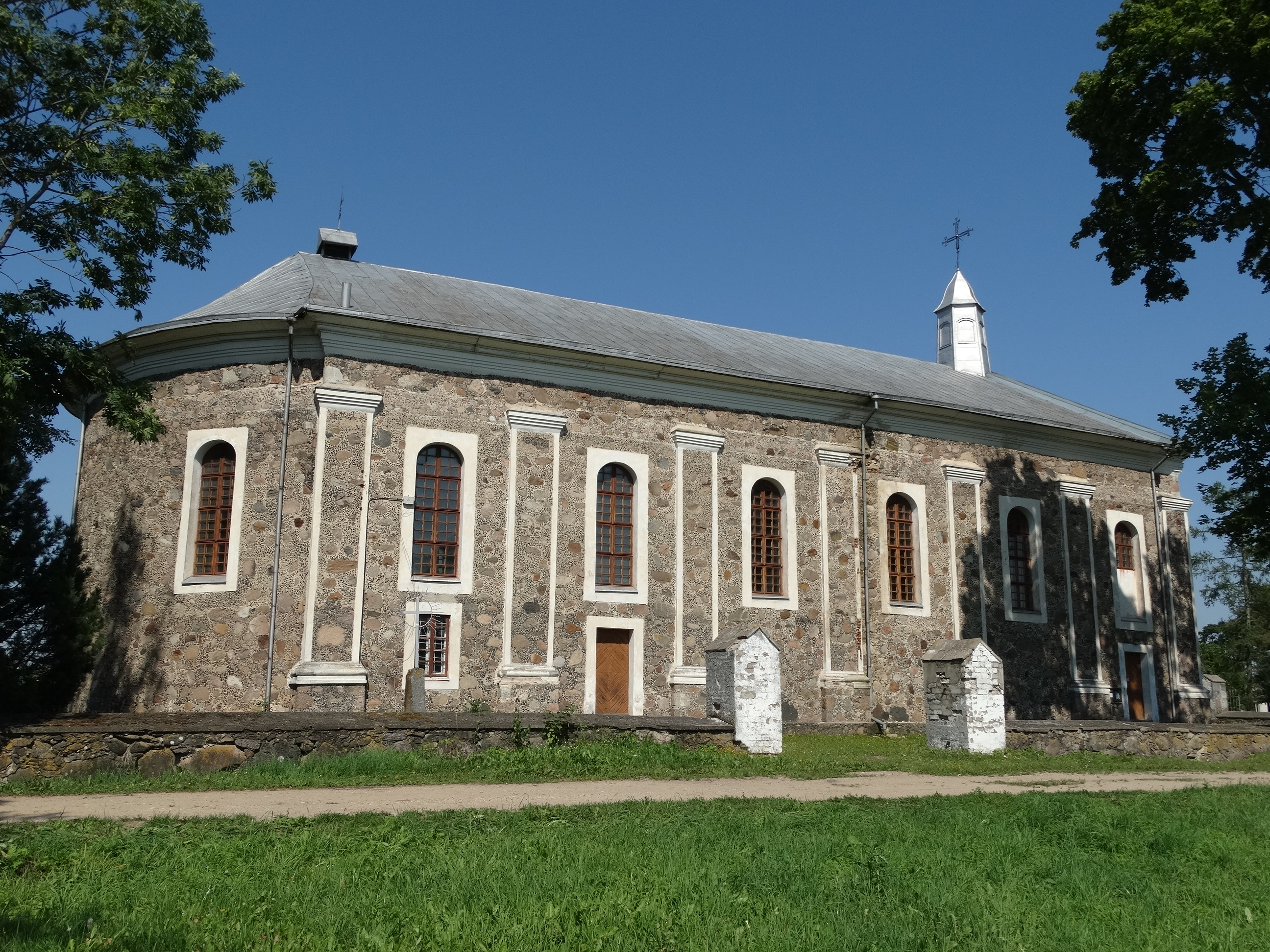 Catholic church, Kriaunos, Rokiškis District, Lithuania